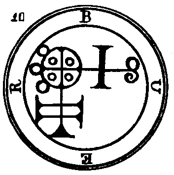 The seal of Buer